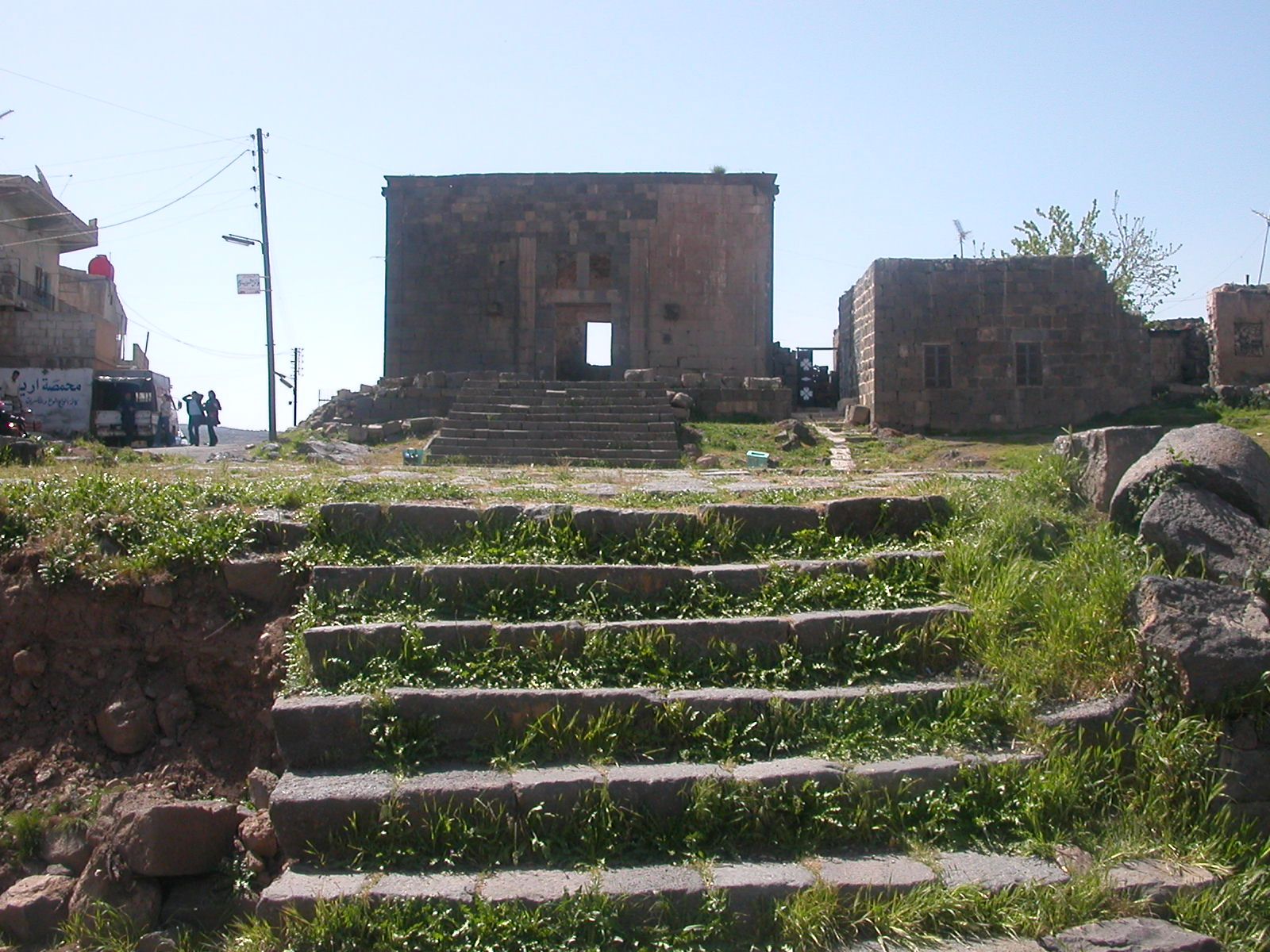 Philipopolis temple Syria